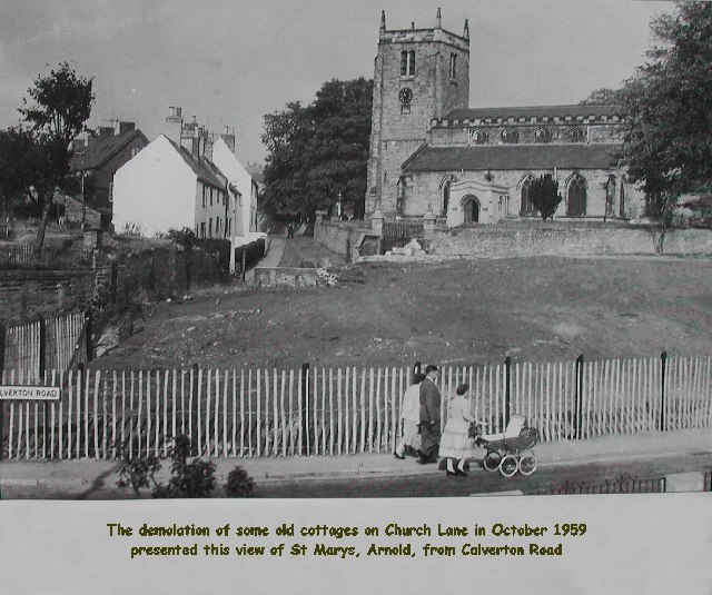 St Marys, Arnold. October 1959. past and present photos of the parish church